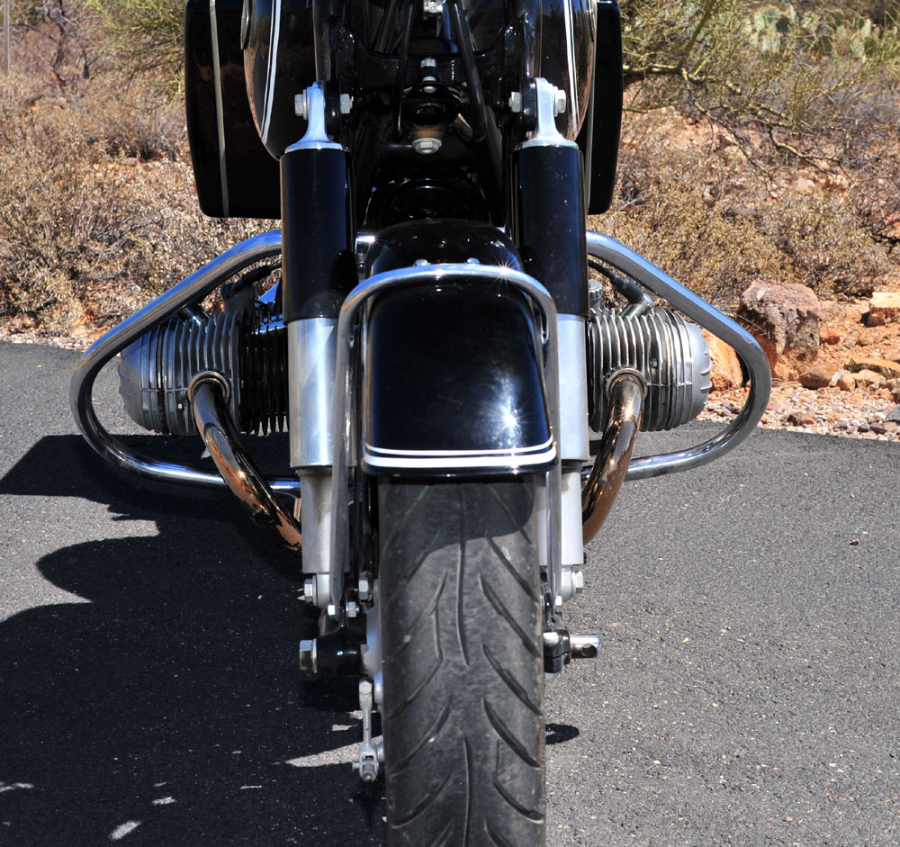 Safety bar on BMW R60/2 motorcycle